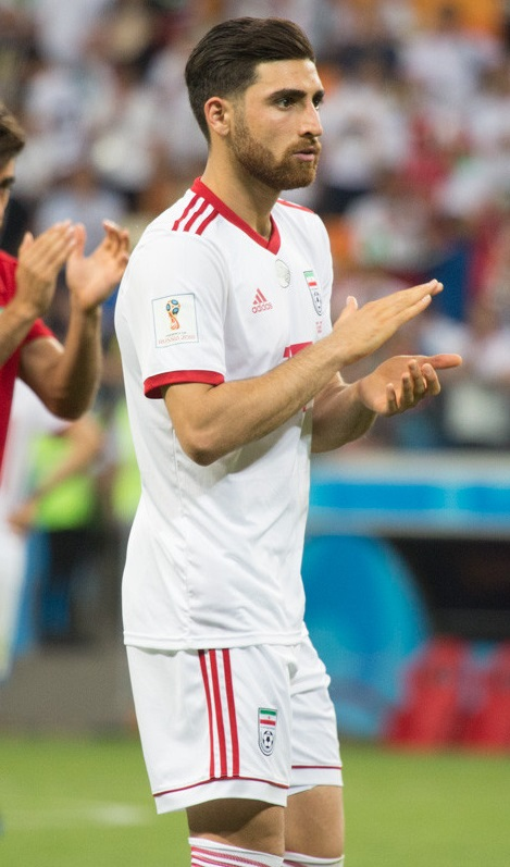 Iran-Portugal match, 2018 FIFA World Cup Group B